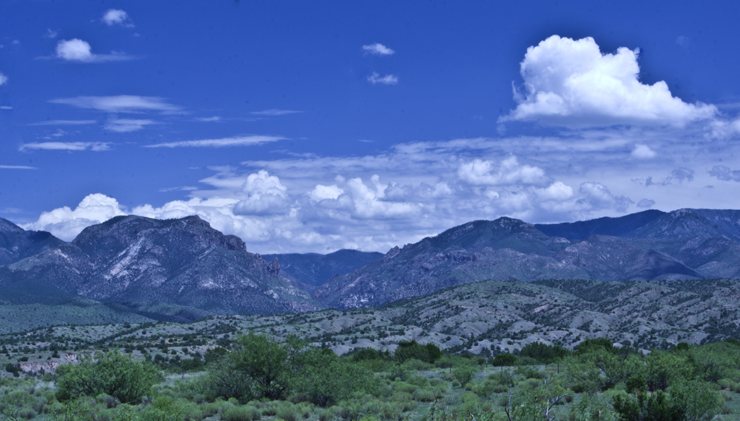 Looking NE from Leopold Vista, just off US 180.